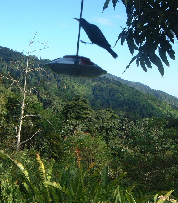 View from Asa Wright Nature Center veranda, Trinidad and Tobago.